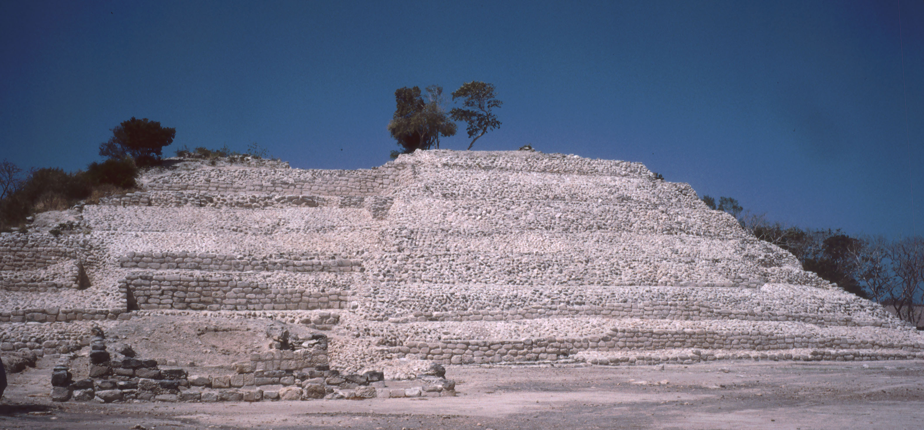 Jaina, Campeche, Mexico; main building.